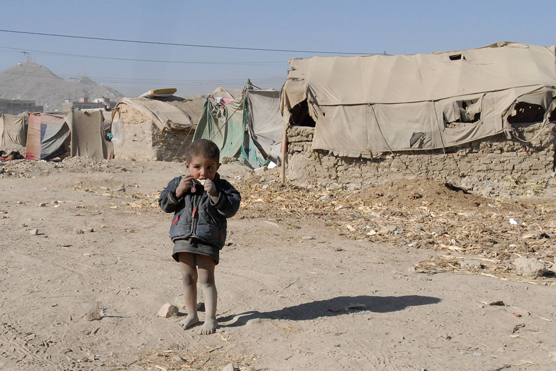 A young Afghan refugee eats a piece of candy given to him by an American soldier. He is one of hundreds of Afghans who live in a dirt field in the middle of Kabul. Military members of International Security Assistance Force ventured today into the refugee camp to bring food, school supplies, clothing and blankets. The installation chaplain at the ISAF Headquarters aims to make these supply visits monthly to help out those in need. International Security Assistance Force HQ Public Affairs Photo by Staff Sgt. Stacey Haga Date Taken:12.19.2010 Location:KABUL, AF Related Photos